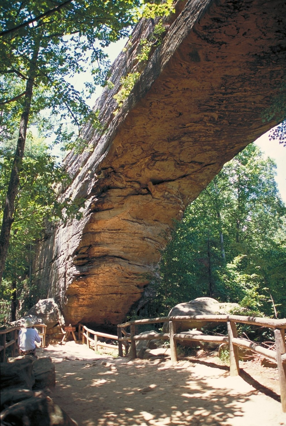 Looking up at the natural stone bridge at Natural Bridge State Park (Kentucky)